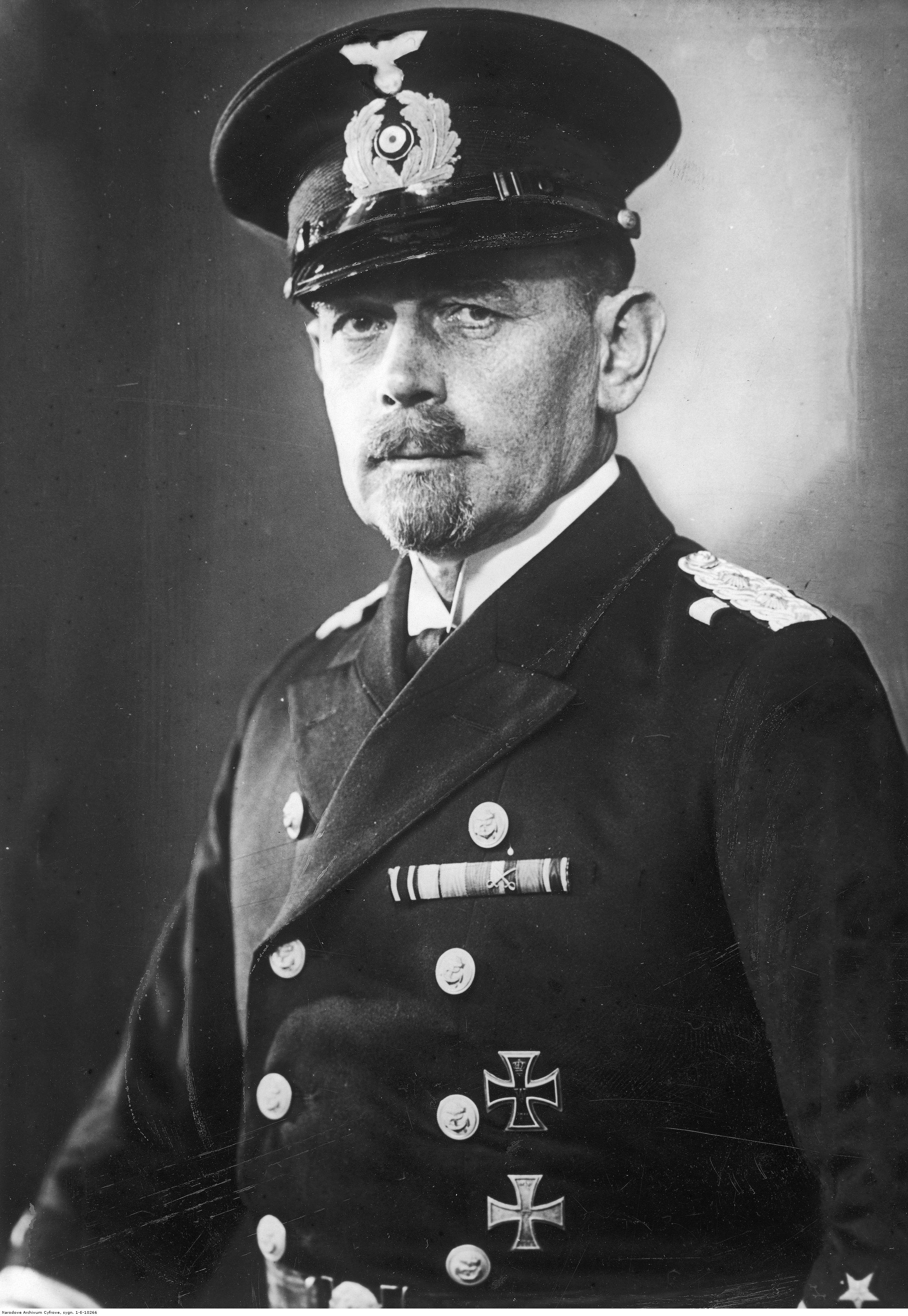 Rolf Hans Wilhelm Karl Carls, German Rear Admiral - portrait photography.